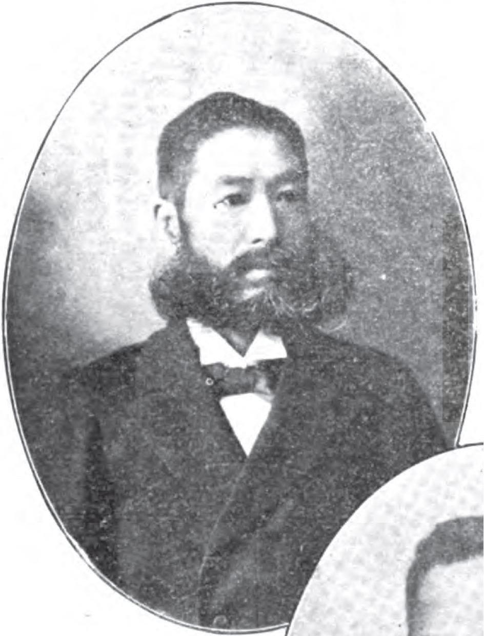 Arai Shōgo (1856-1906) was known a Japanese politician LP leader in early Meiji era.